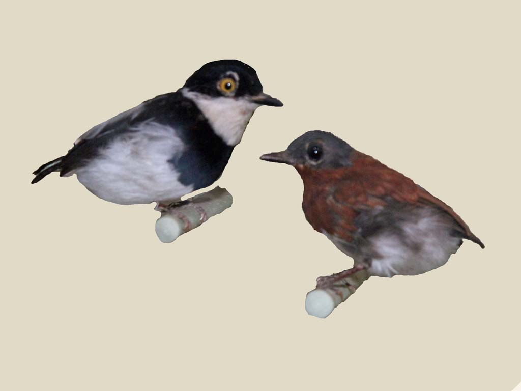 Chestnut Wattle-eye (Platysteira castanea). Male on left; female on right. Photograph of a specimen at Nairobi National Museum in Nairobi, Kenya.